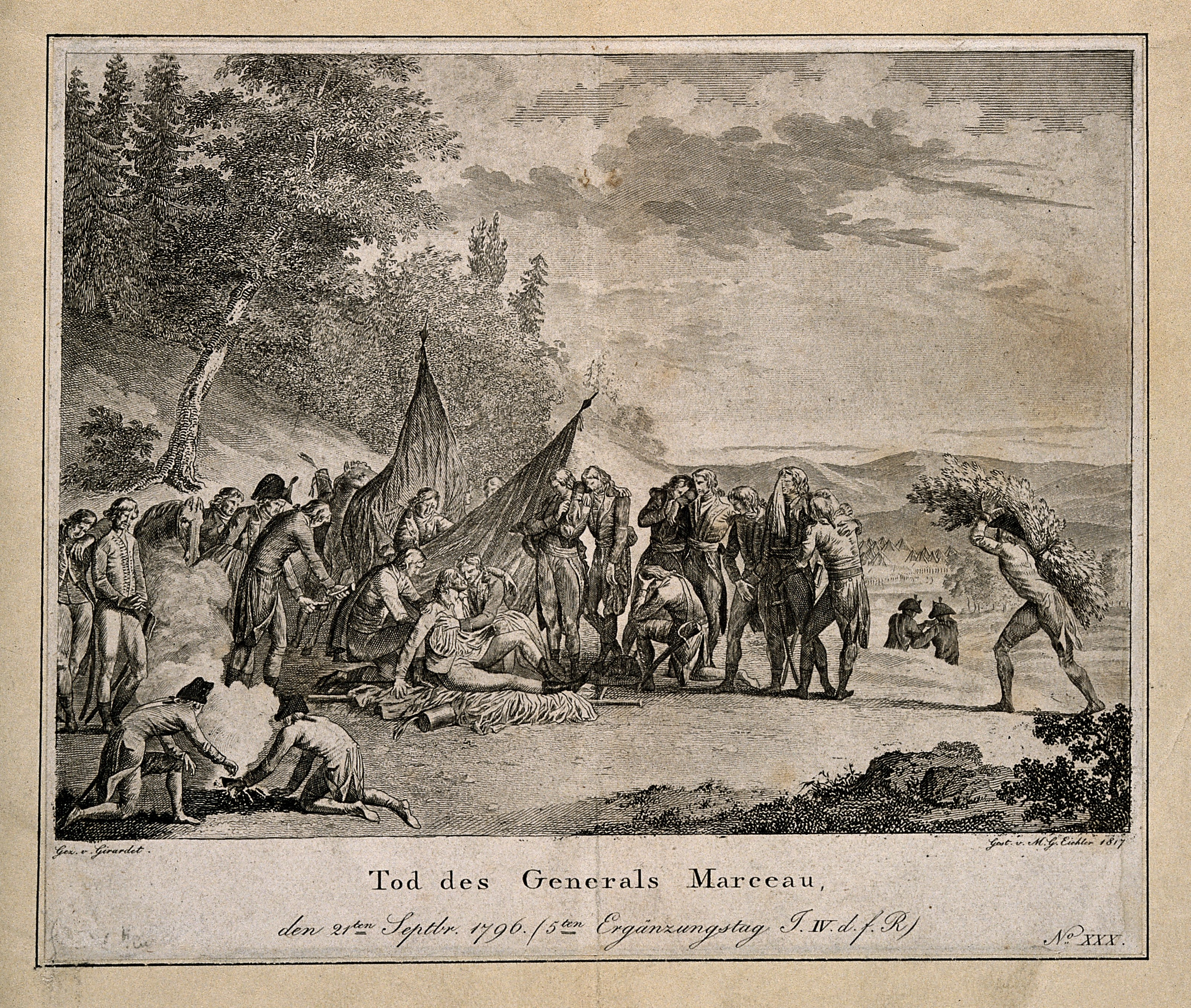 The death of General Marceau, during the retreat at Altenkirchen, 1796. Line engraving by M.G. Eichler, 1817, after A.-L. Giradet. Iconographic Collections Keywords: Abraham-Louis Giradet; Mathias Gottfried Eichler; François Séverin Marceau-Desgraviers